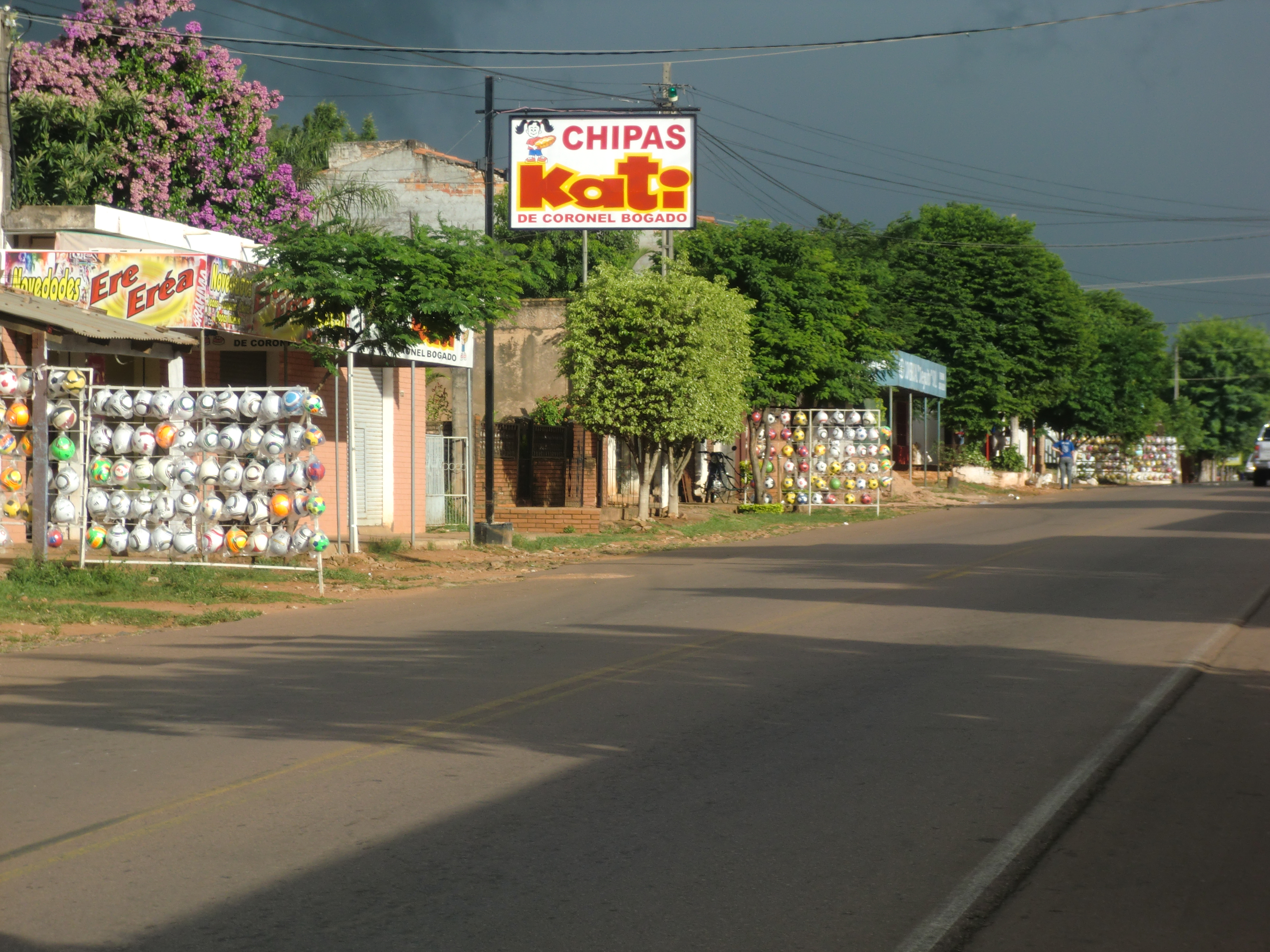 Soccer Balls in Quiindy City